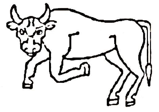 Coat of Arms of Kamsarakan royal family